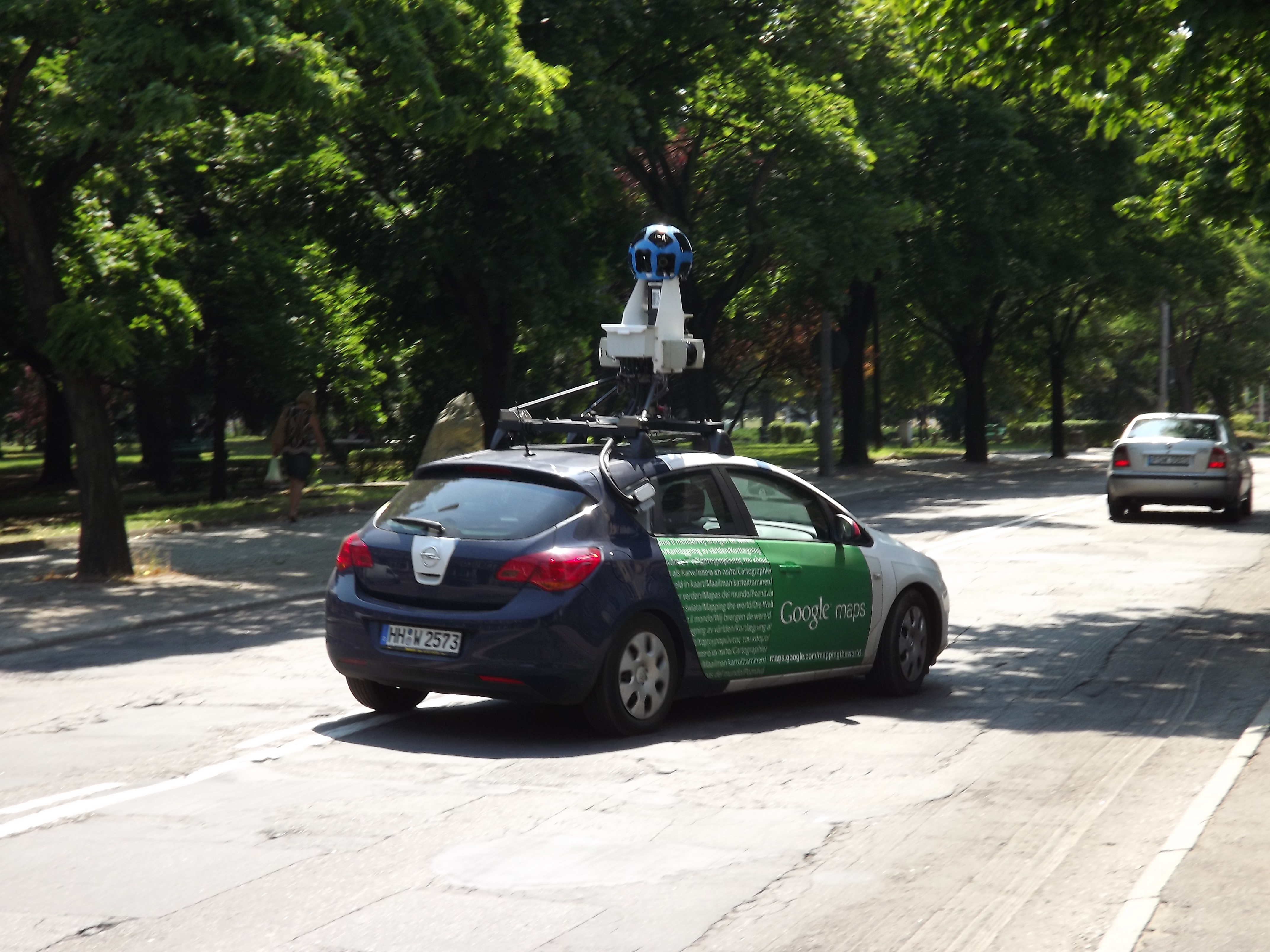 Google Street View camera cars in Gorzów Wielkopolski